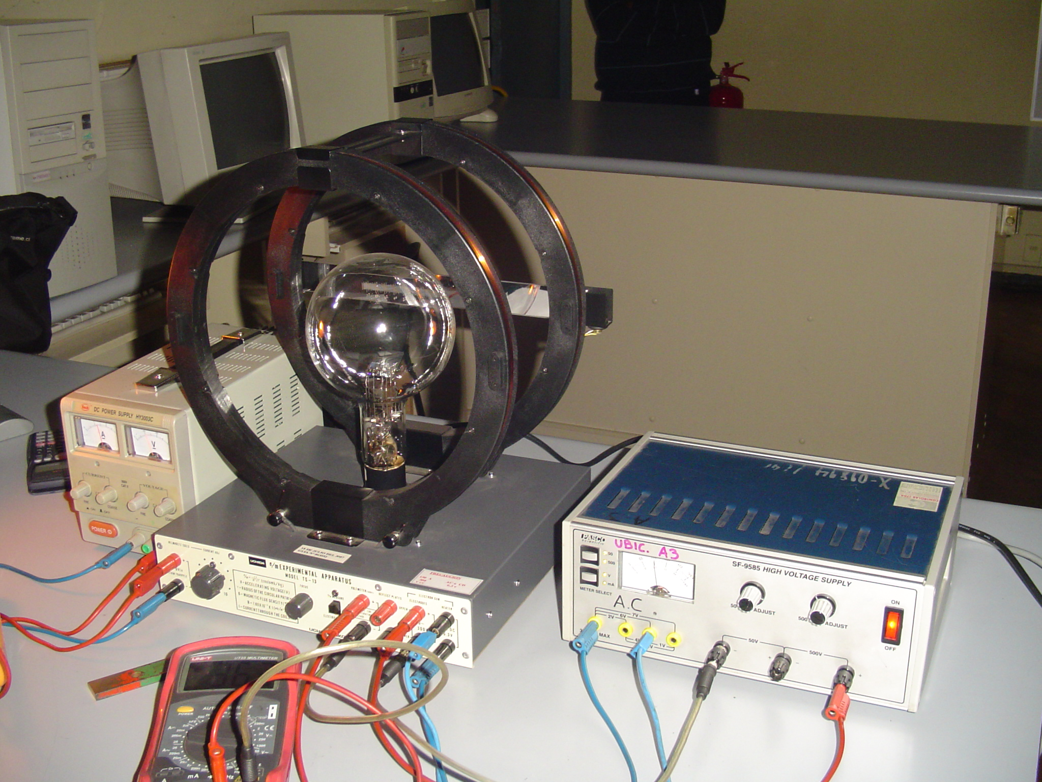 Device used as a physical experiment to check the charge of a electron.